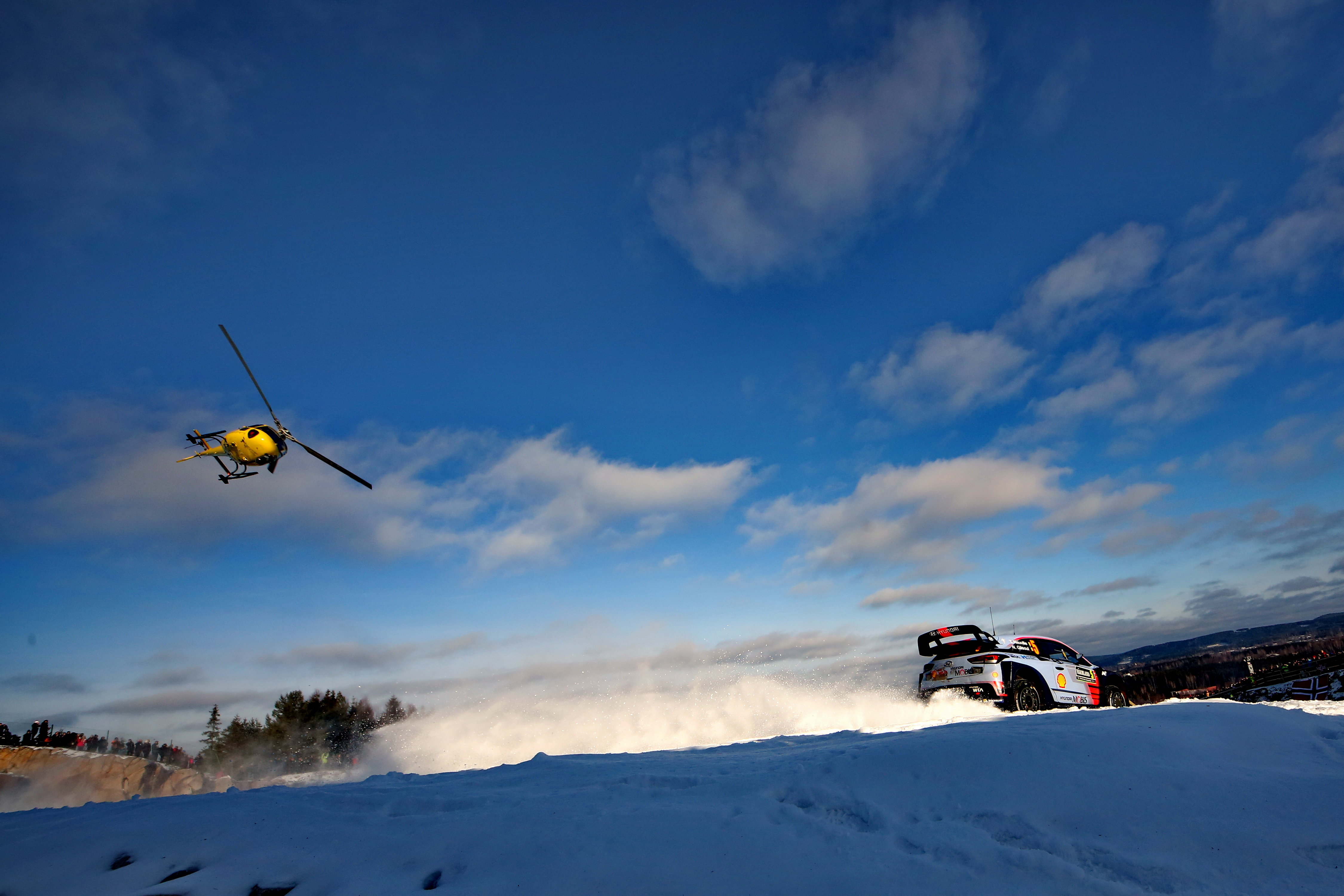 2017 FIA World Rally Championship Round 02, Rally Sweden 09-12 February 2017, Thierry Neuville, Nicolas Gilsoul, Hyundai i20 Coupe WRC, Photographer: RaceEmotion, Worldwide copyright: Hyundai Motorsport GmbH